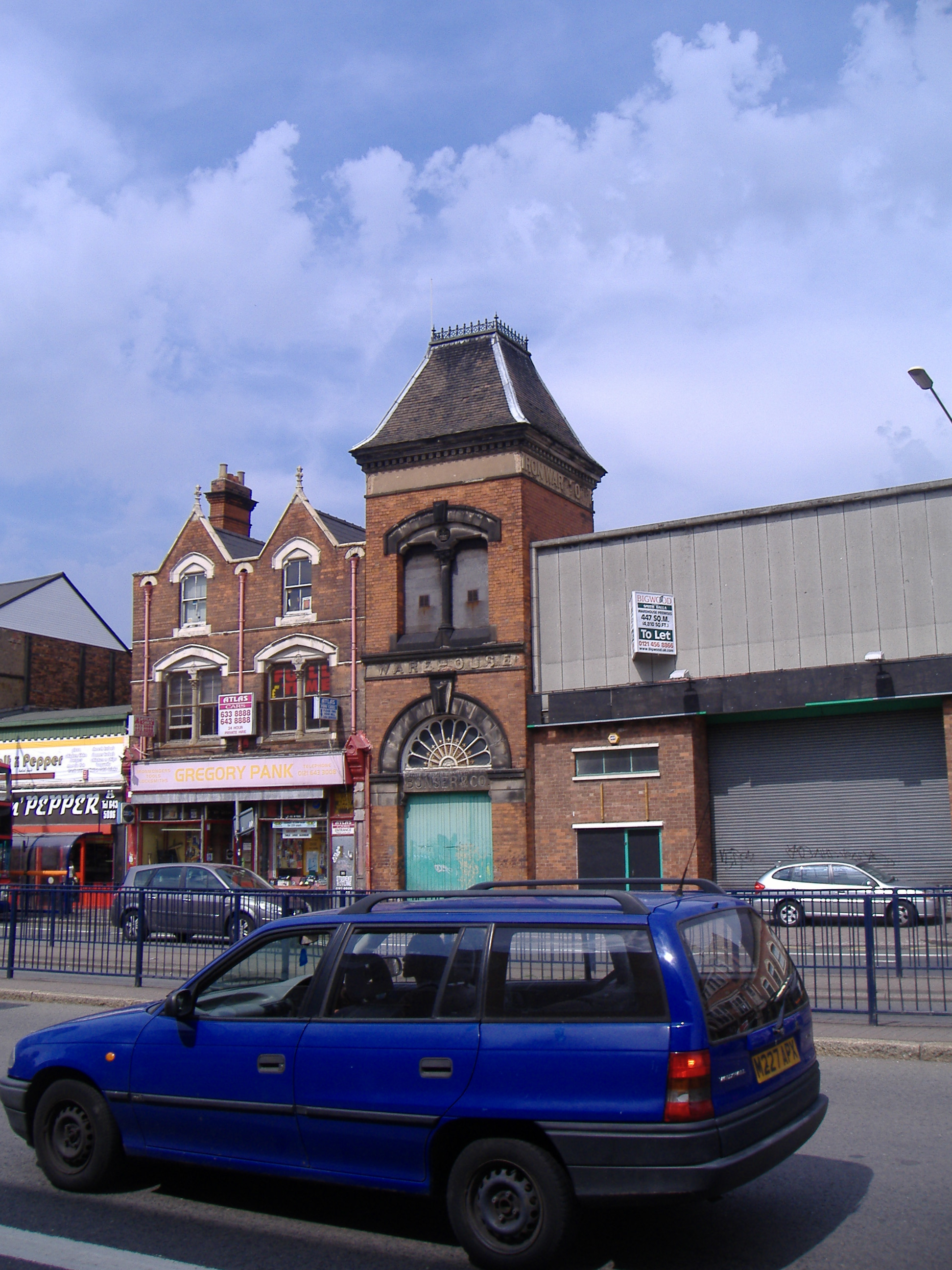 This is the former Bonser & Co. Warehouse in Digbeth. Built around 1810, it features that small tower that is visible in the image.